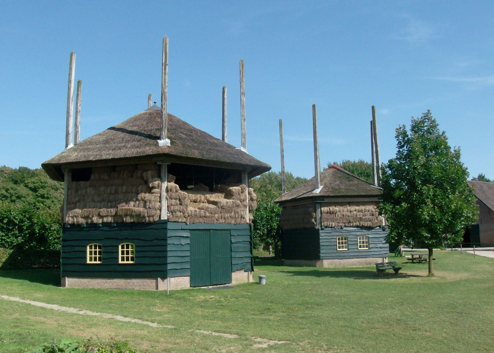 Haystacks at Mariënwaerdt Estate near Beesd (Municipality of Geldermalsen, Netherlands).